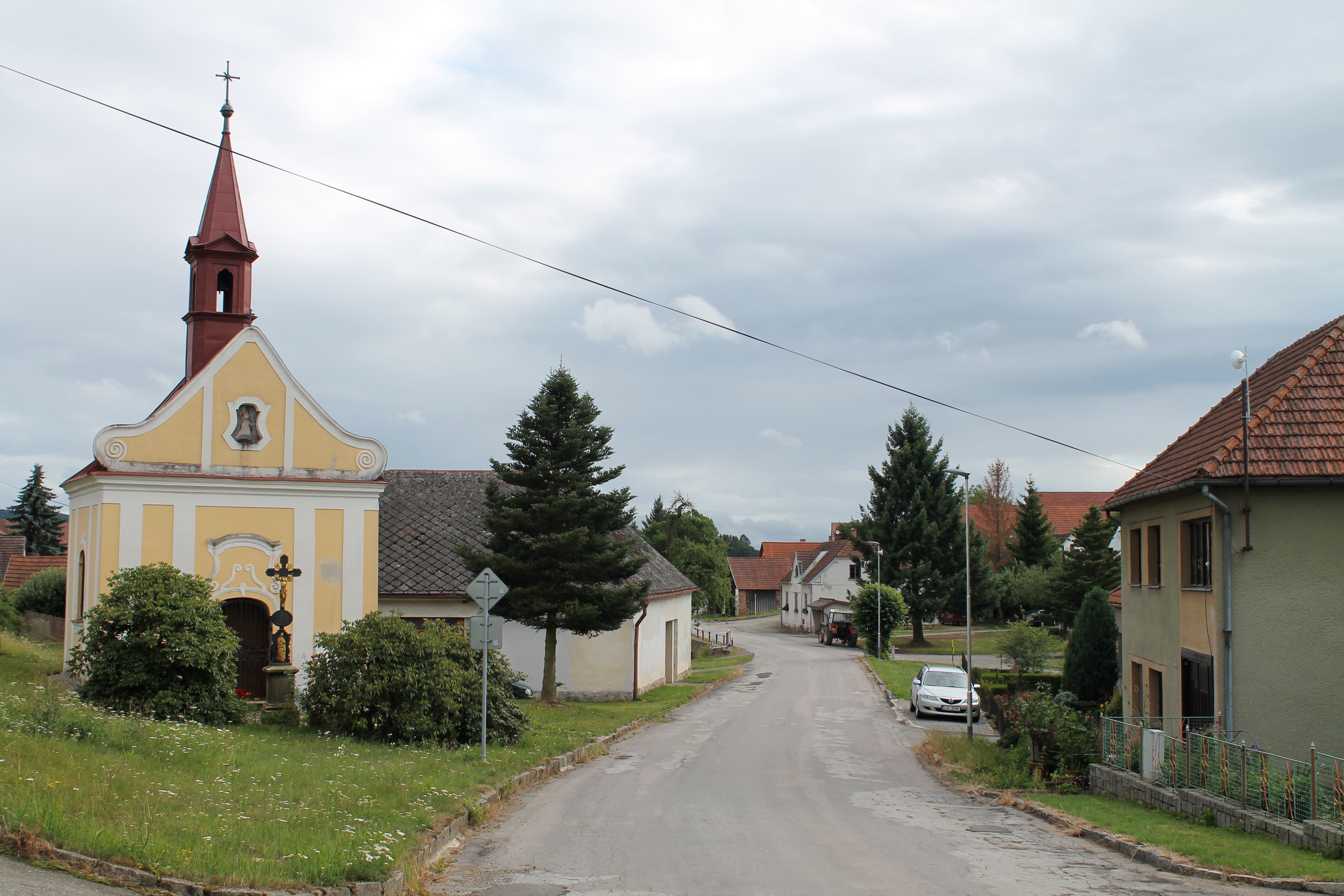 Chapel of Saints Cyril and Methodius, Dolní Vilímeč, Jihlava District, Czech Republic